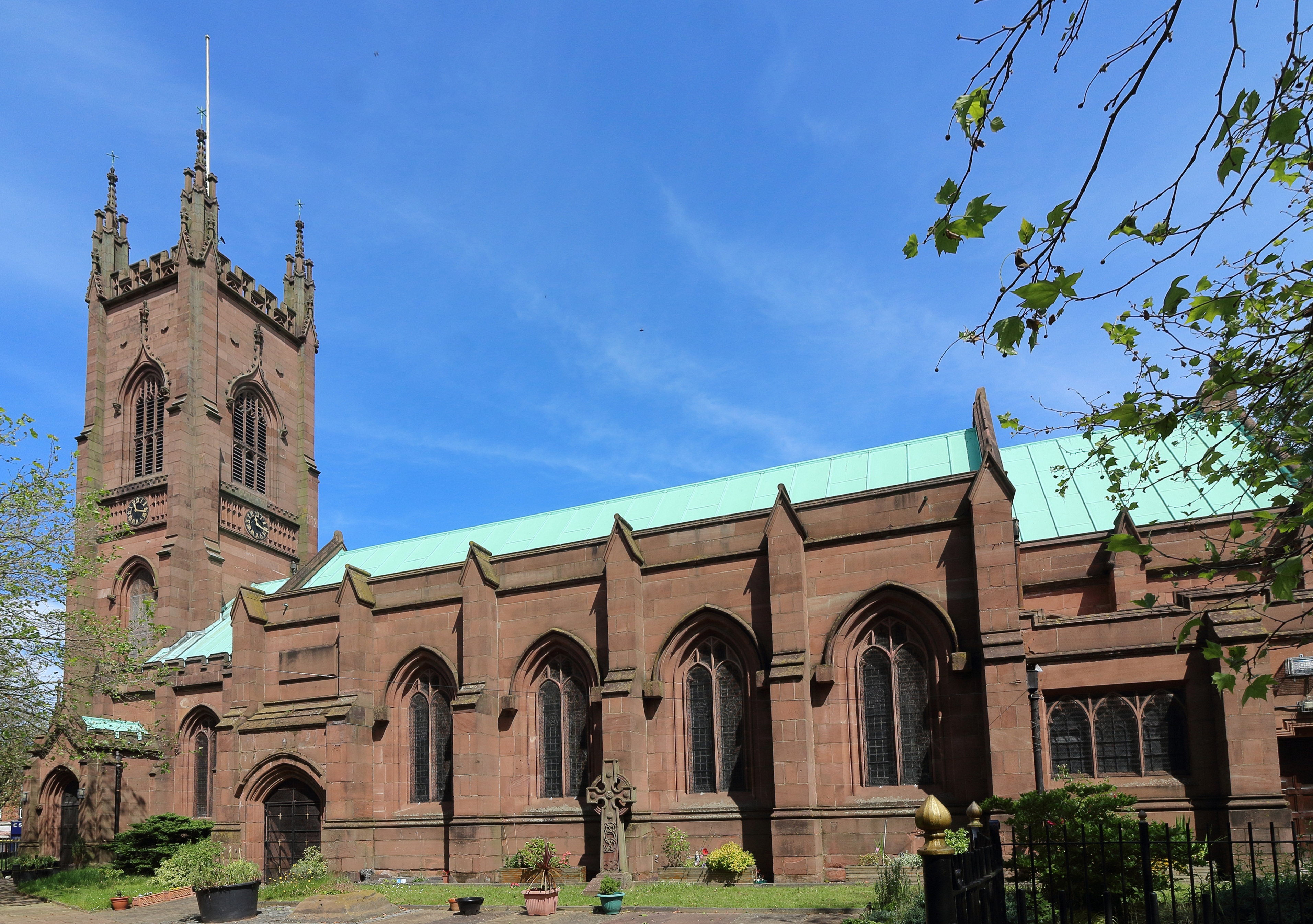 Grade II listed St Mary's church, Walton, Liverpool viewed from the southeast, blue sky